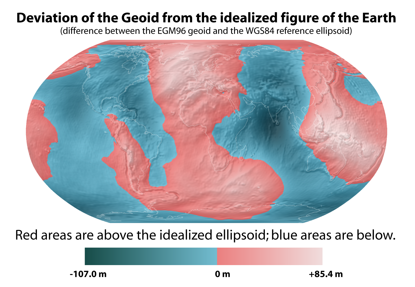 Deviation of the Geoid from the idealized figure of the Earth.